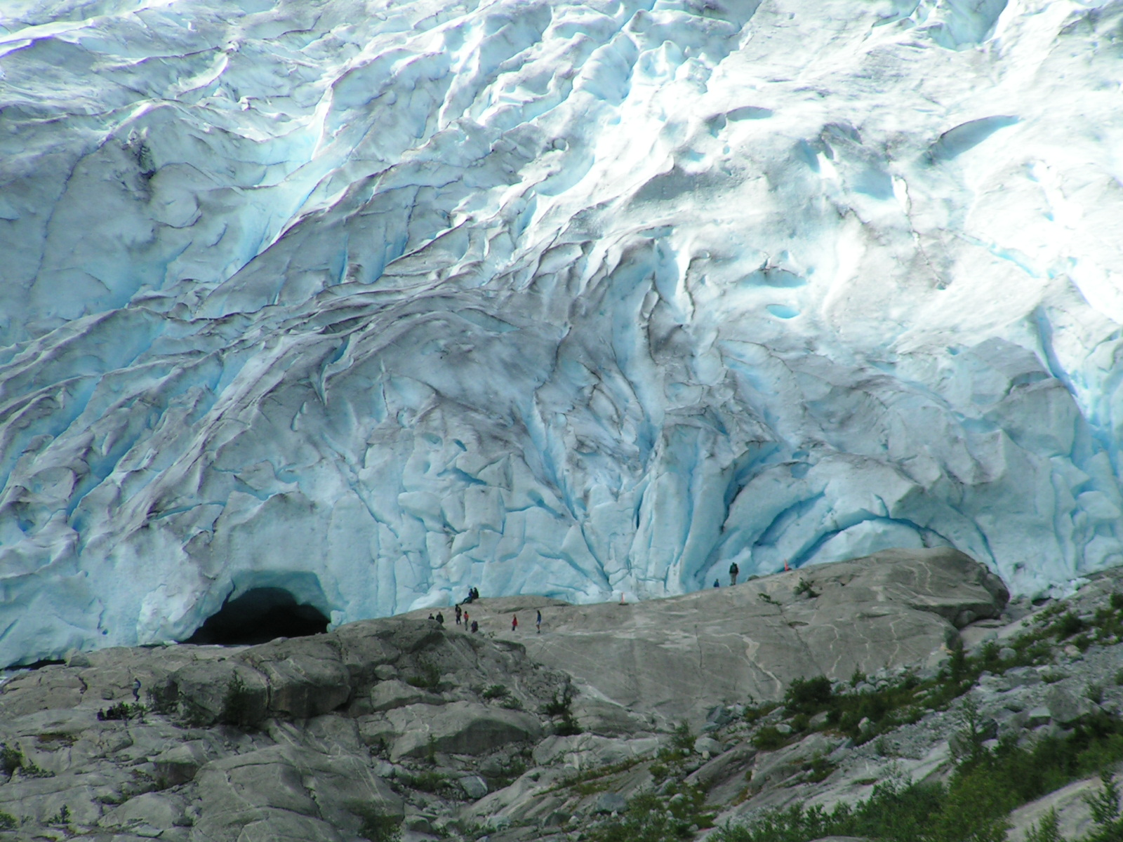 The glacier Nigardsbreen in Luster municipality in Sogn og Fjordane county in Norway. Compare this photo with Image:Nigardsbreen-Norway.jpg to get an idea about the size. The black hole in the ice can be seen in both photos.